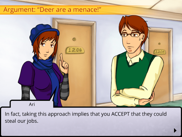 Screenshot from Socrates Jones